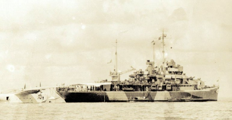 The U.S. Navy Barnegat class seaplane tender USS Humboldt (AVP-21) at Bahia, Brazil, in April 1945. Note the Martin PBM Mariner of patrol bombing squadron VPB-203 aft of Humboldt.